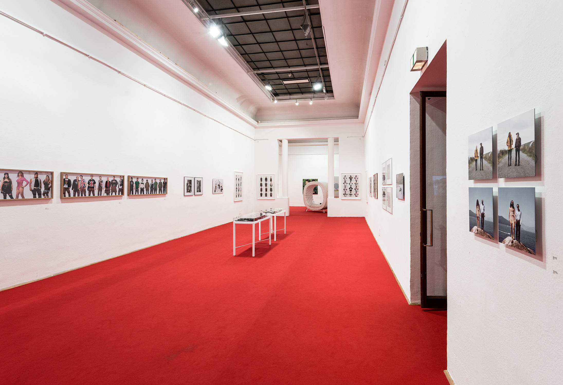 Künstlerhaus 1st Floor Exhibition: Megacool 4.0, 2012_© Künstlerhaus